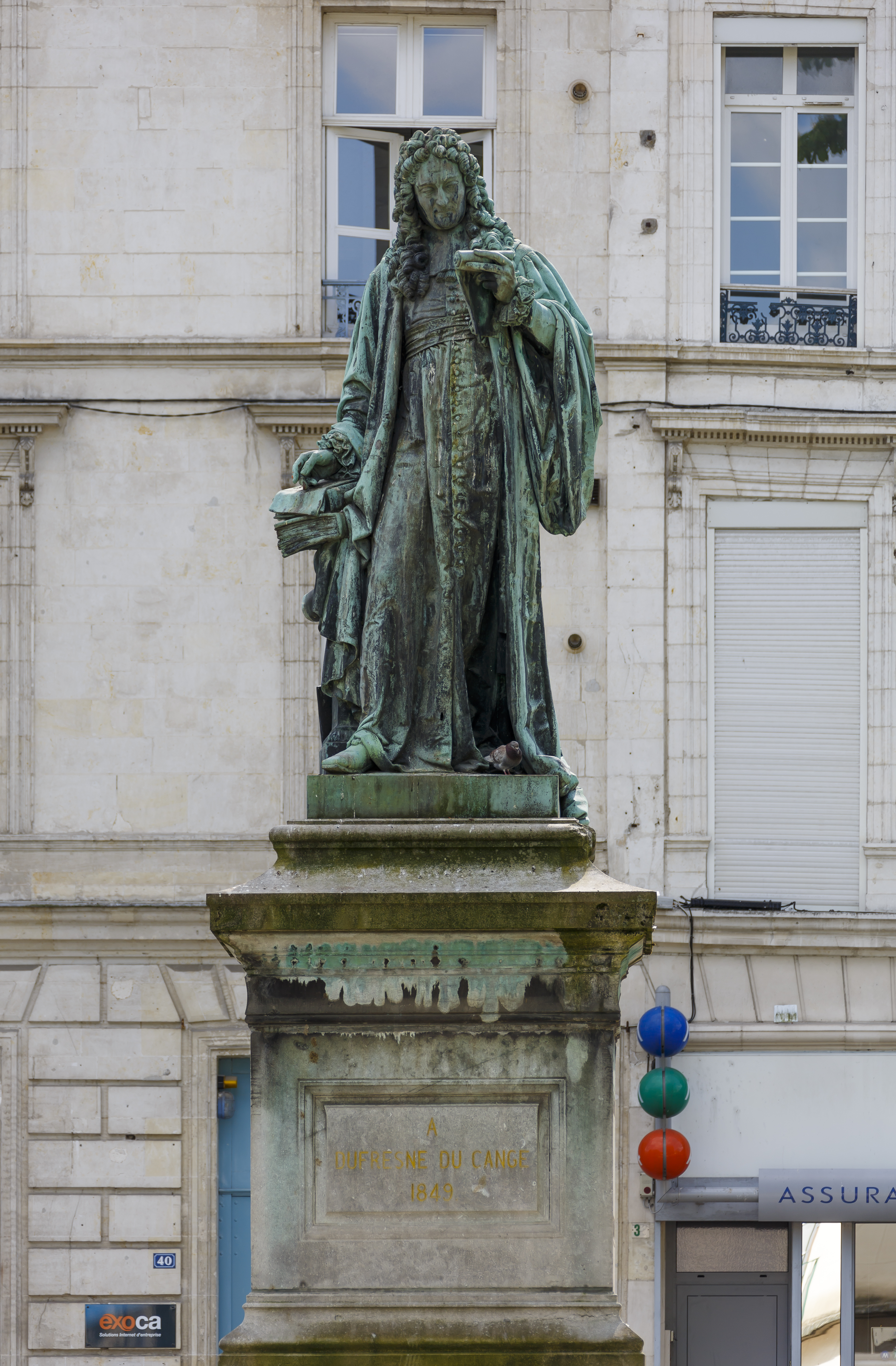 Amiens, France: Monument of Dufresne Du Cange at the René Goblet Square (Place René Goblet)